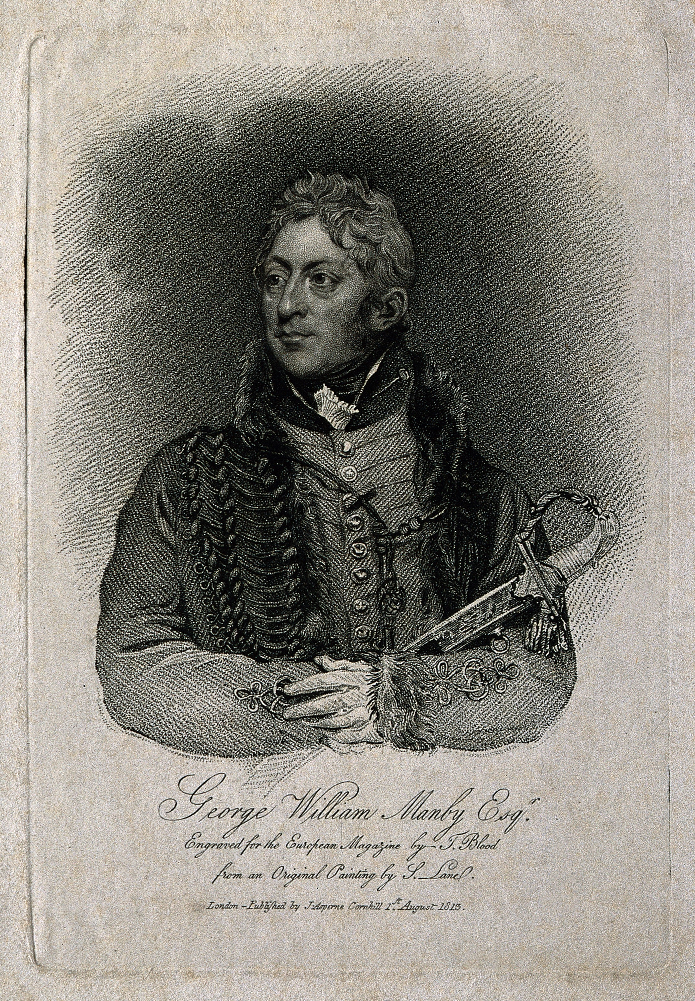 George William Manby. Stipple engraving by T. Blood, 1813, after S. Lane. Iconographic Collections Keywords: portrait prints; S. Lane; stipple prints; T. Blood; George William Manby